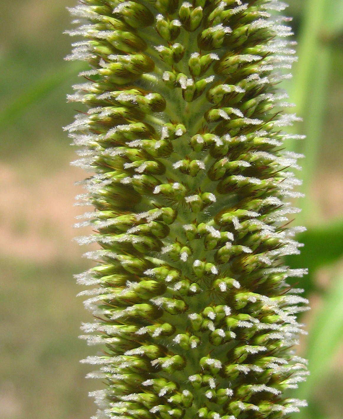 Pearl millet (Pennisetum americanum) is a cereal of the dry tropics.